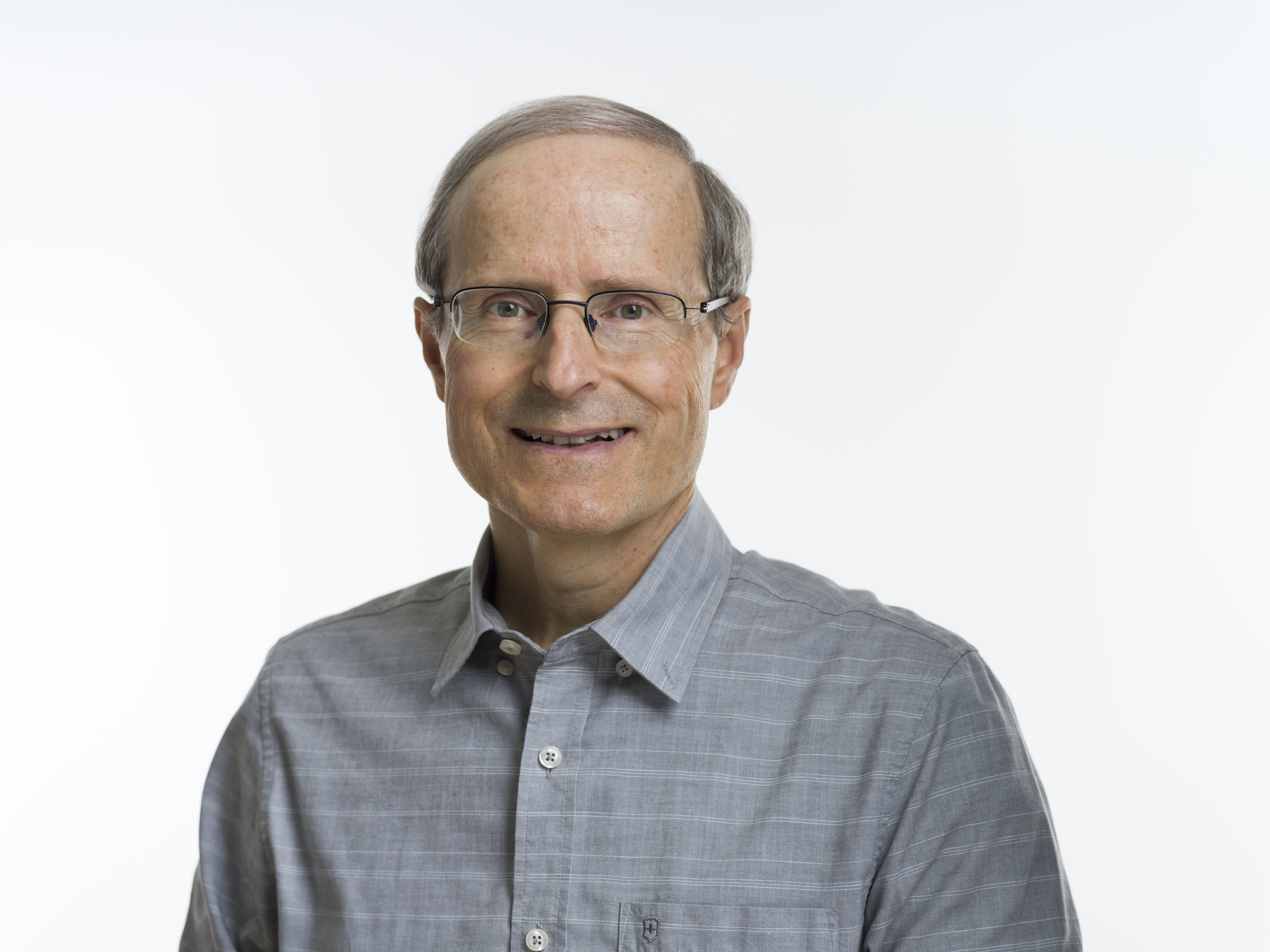 Carl Elsener, Chief Executive Officer, Victorinox AG